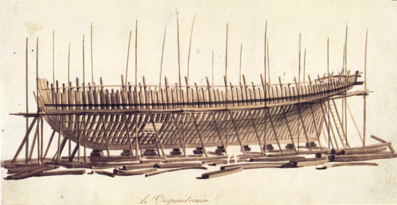 The privateer Duguay-Trouin under construction in 1790